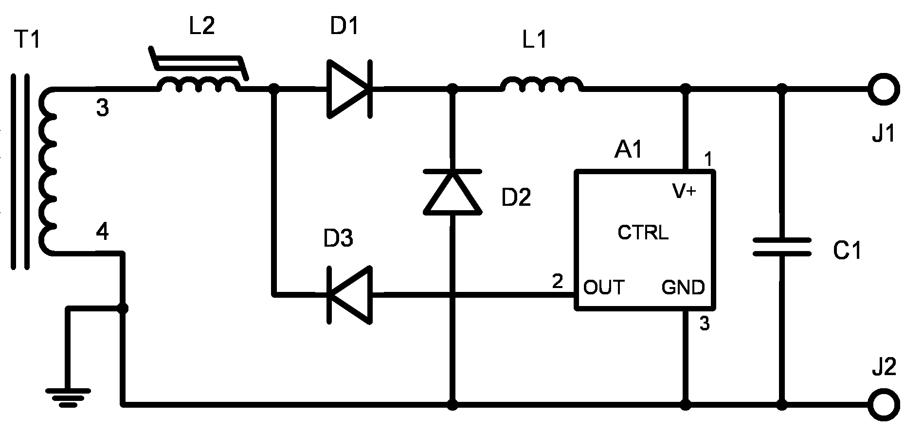 A simplified schematic drawing of the usual magnetic amplifier post regulator of a switched-mode power supply. The primary windings of the transformer T1 and other primary side electronics were left out.